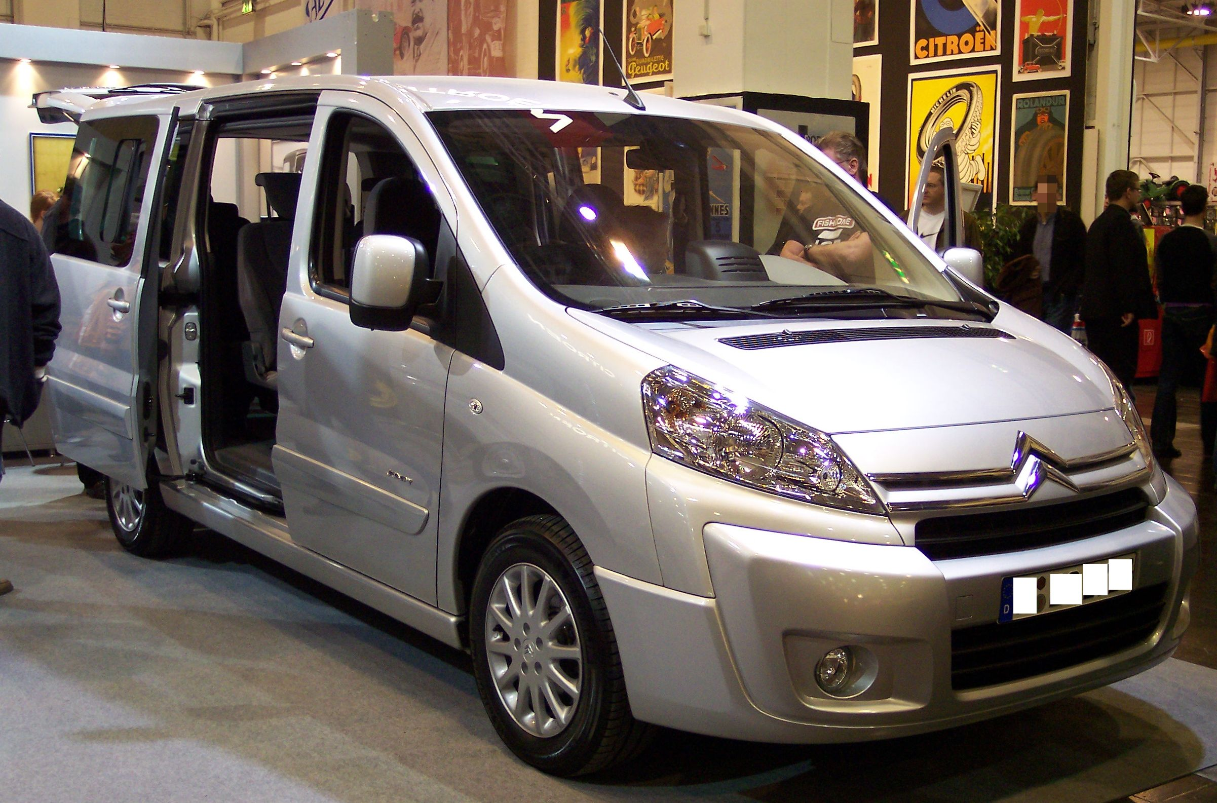 Citroën Jumpy 2007